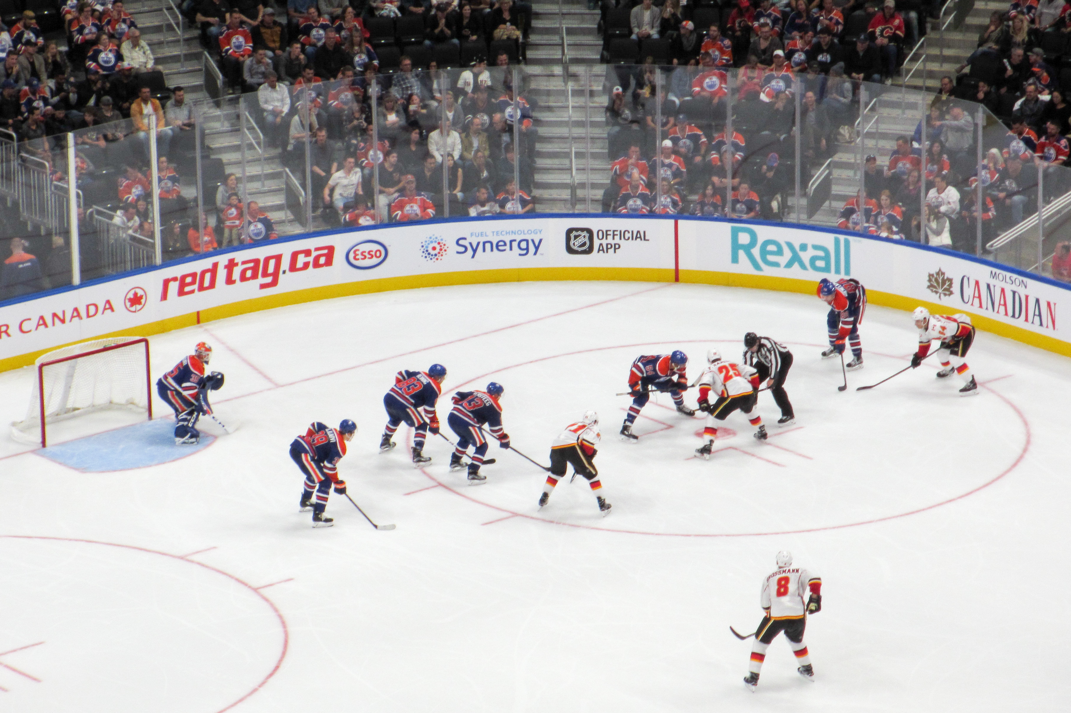 The first pre-season game for the Edmonton Oilers at Rogers Place.